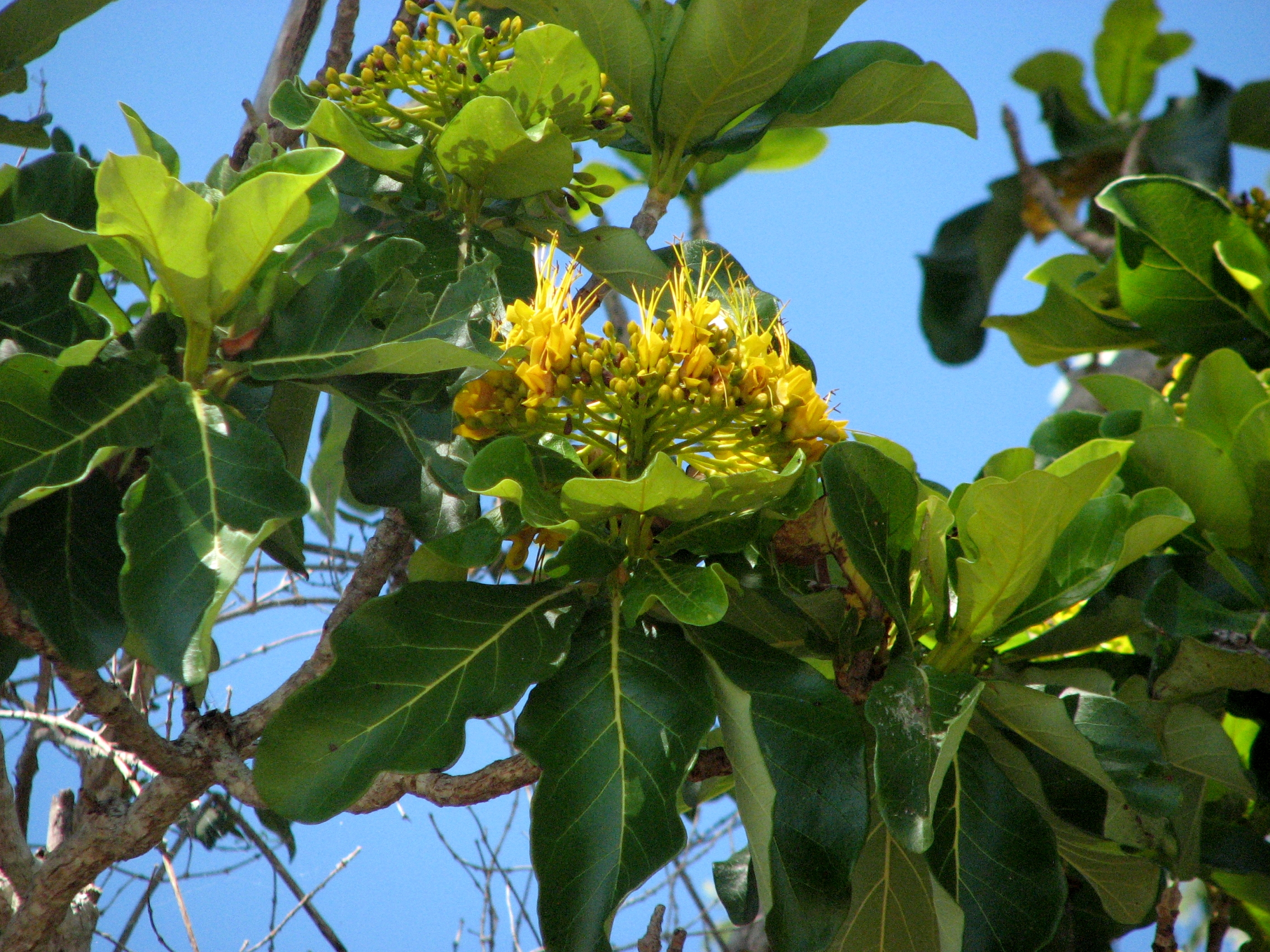 Deplanchea tetraphylla (identified by User:Macropneuma) Location: Kewarra Beach, Queensland, Australia